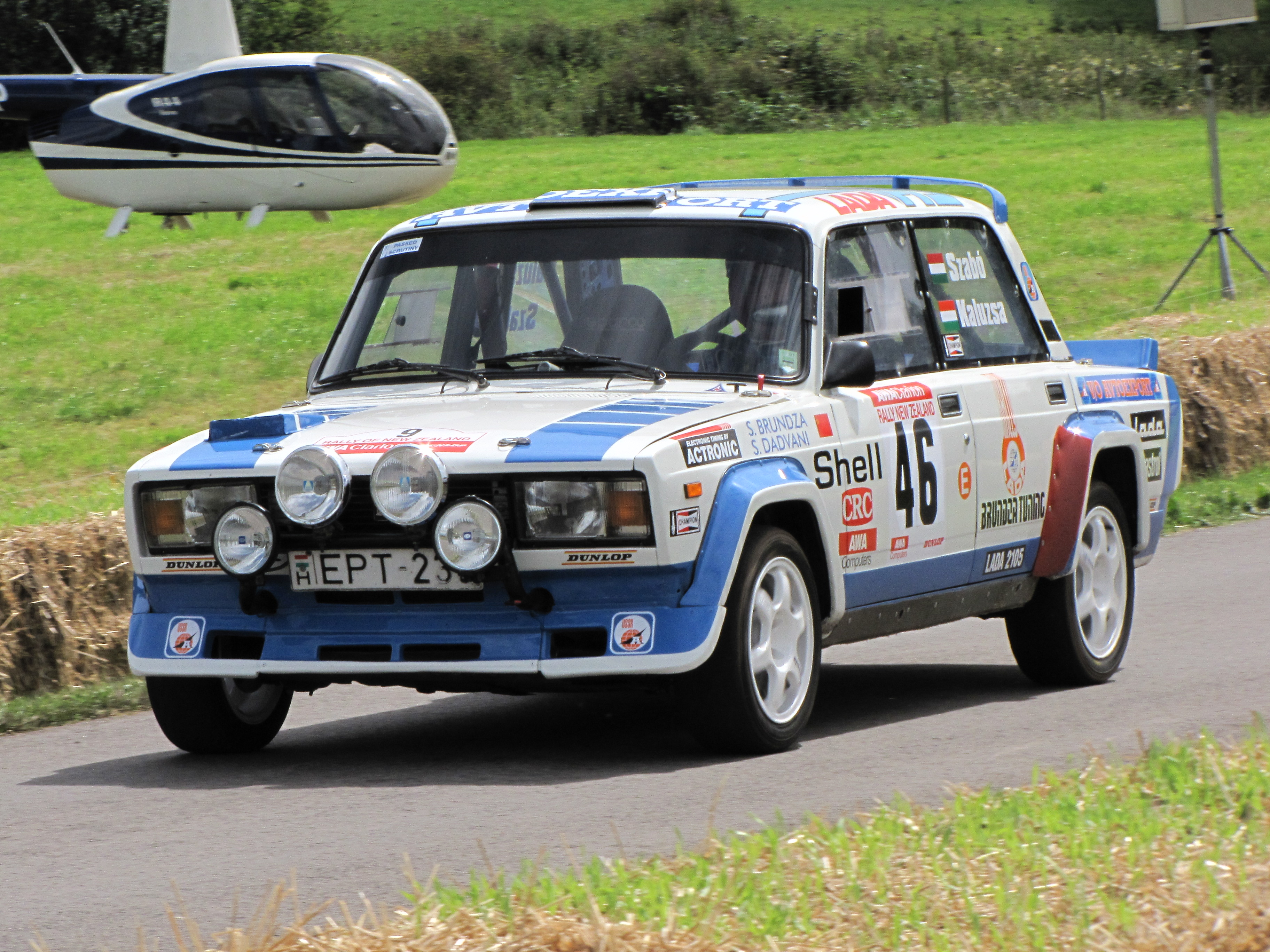 Lada 2105 WFTS